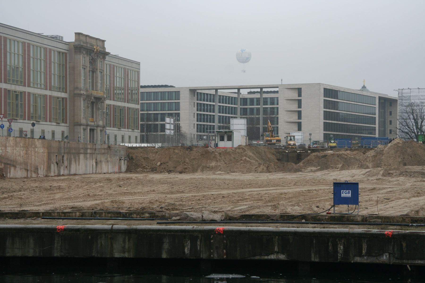 Berlin: View over Spree river to the demolition place of the former Palast der Republik, to the left the former Staatsrat building